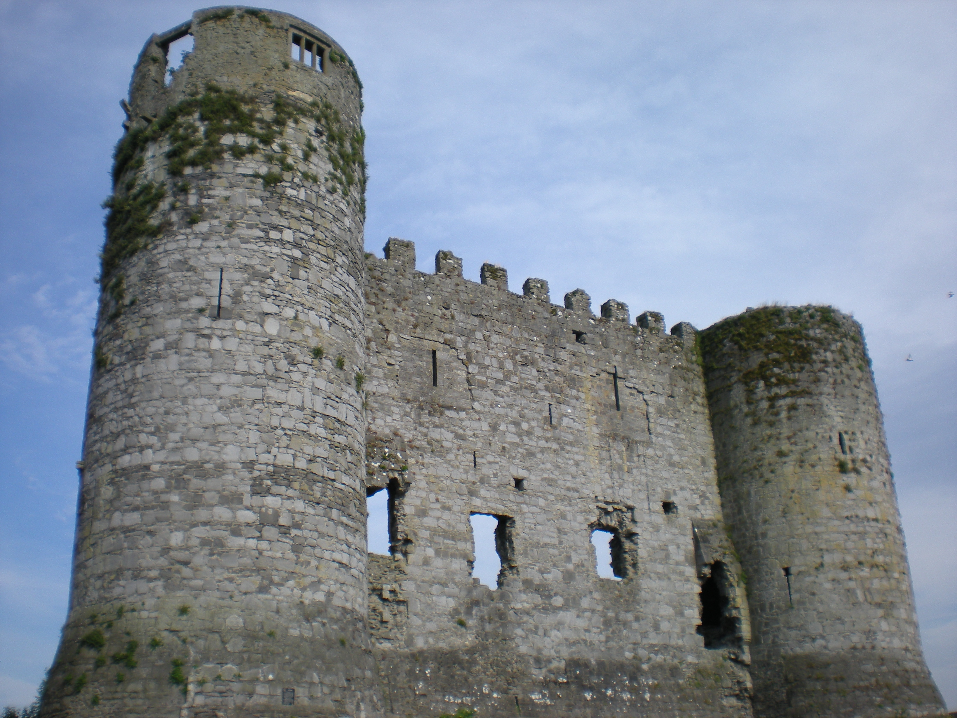 Carlow Castle, located at Carlow, County Carlow, Republic of Ireland.